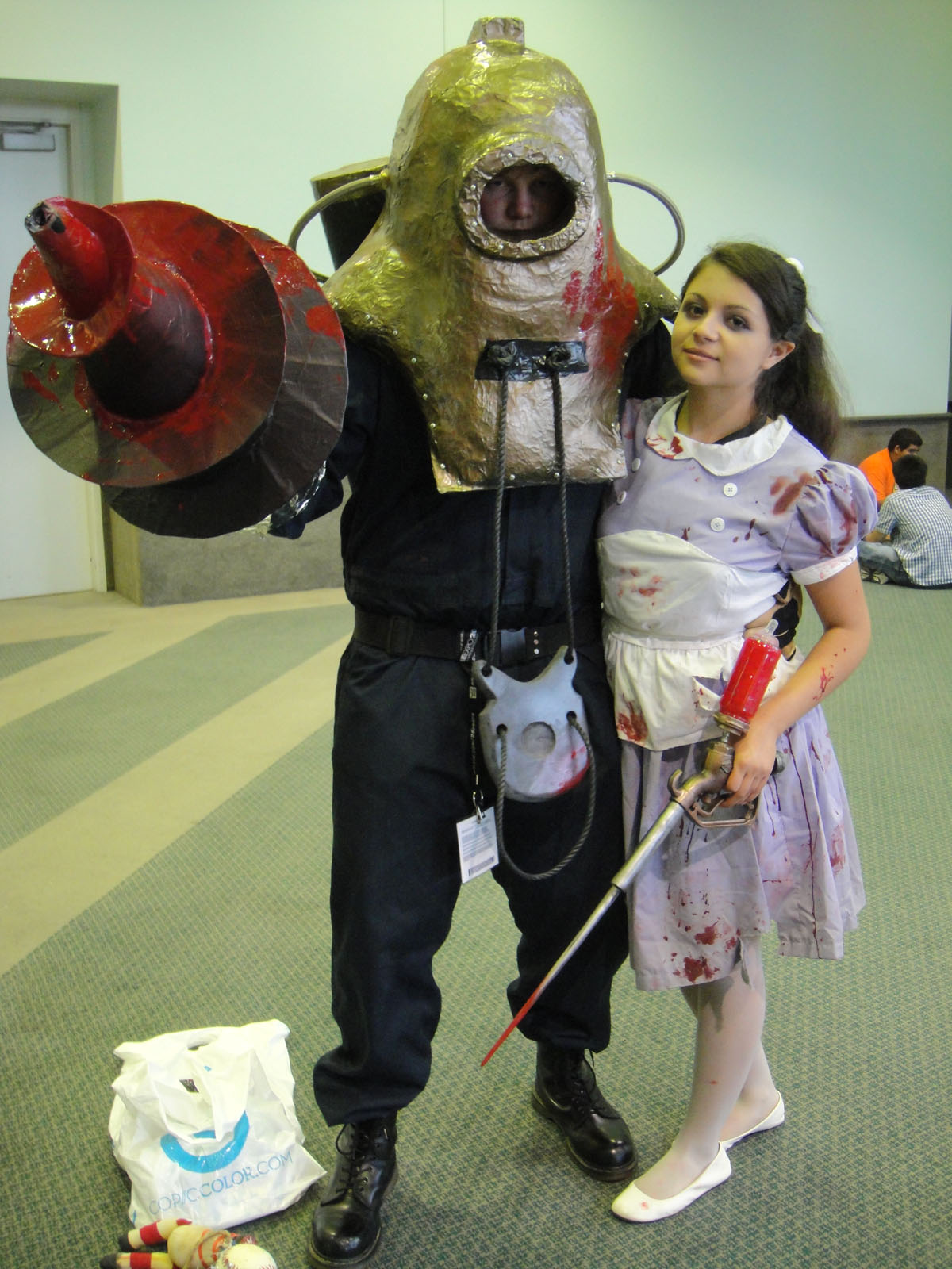 Anime Expo 2011 - Big Daddy and Little Sister from Bioshock